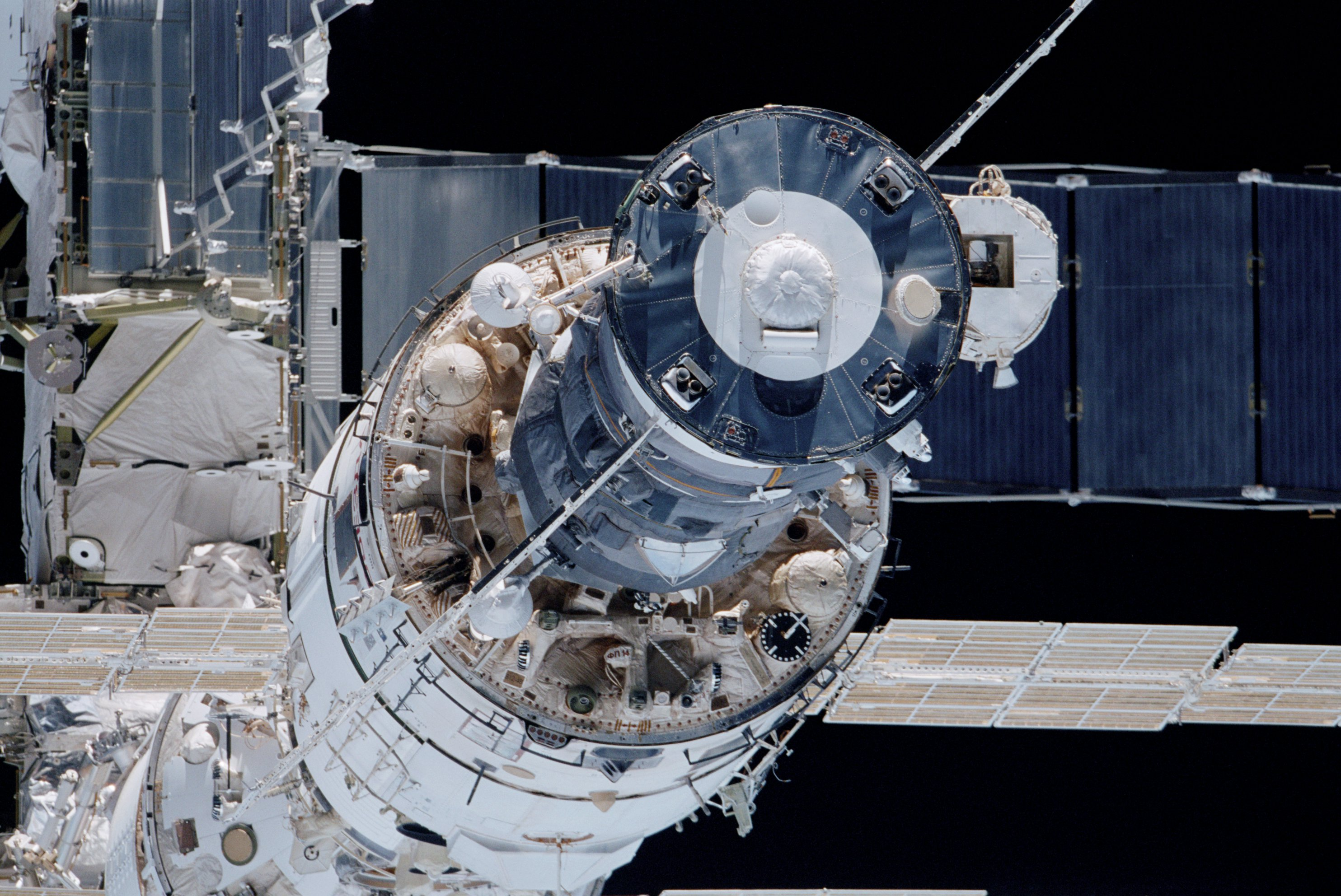 Nadir aft view of Progress vehicle and Service Module/Zvezda.